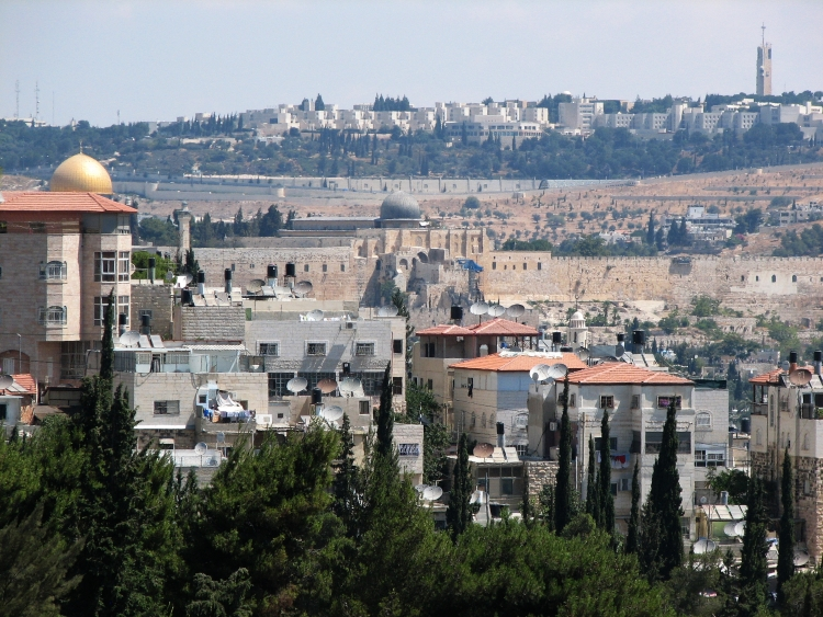 Abu Tor, Jerusalem, overlooking al-Aqsa mosque